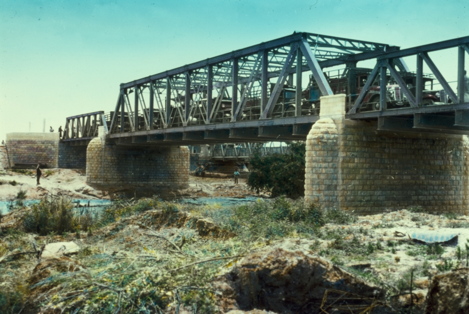 Jericho and Dead Sea area and River Jordan. River Jordan, the Allenby Bridge